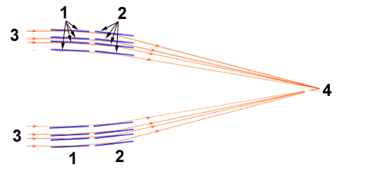 Diagram of a Wolter Type 1 optical system. 1) Parabolic mirrors; 2) Hyperbolic mirrors; 3) X-rays; 4) Focal point.